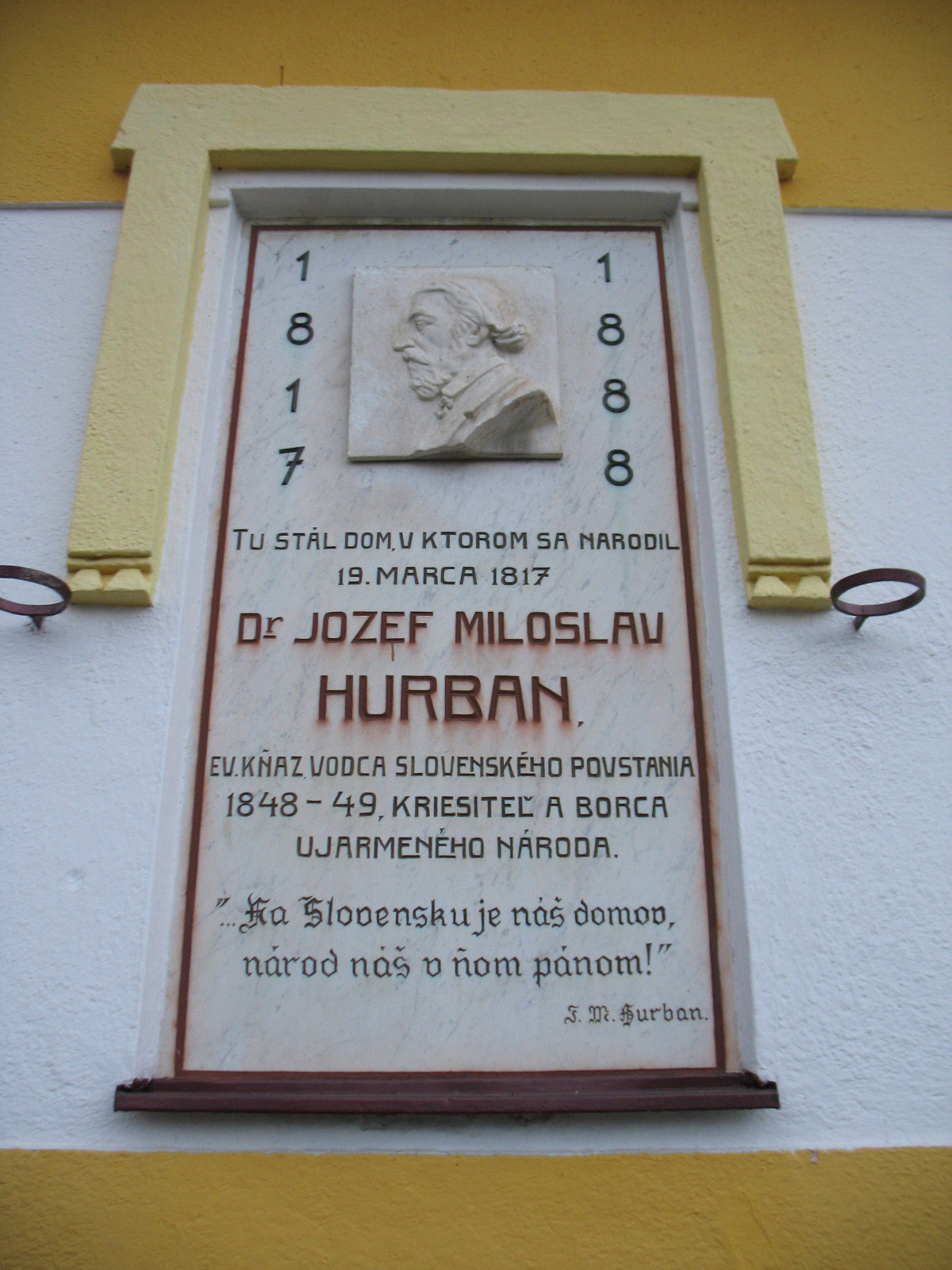 Jozef Miloslav Hurban, Beckov